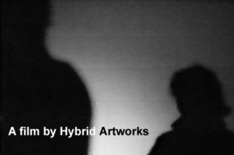 Still image from my video used in installation